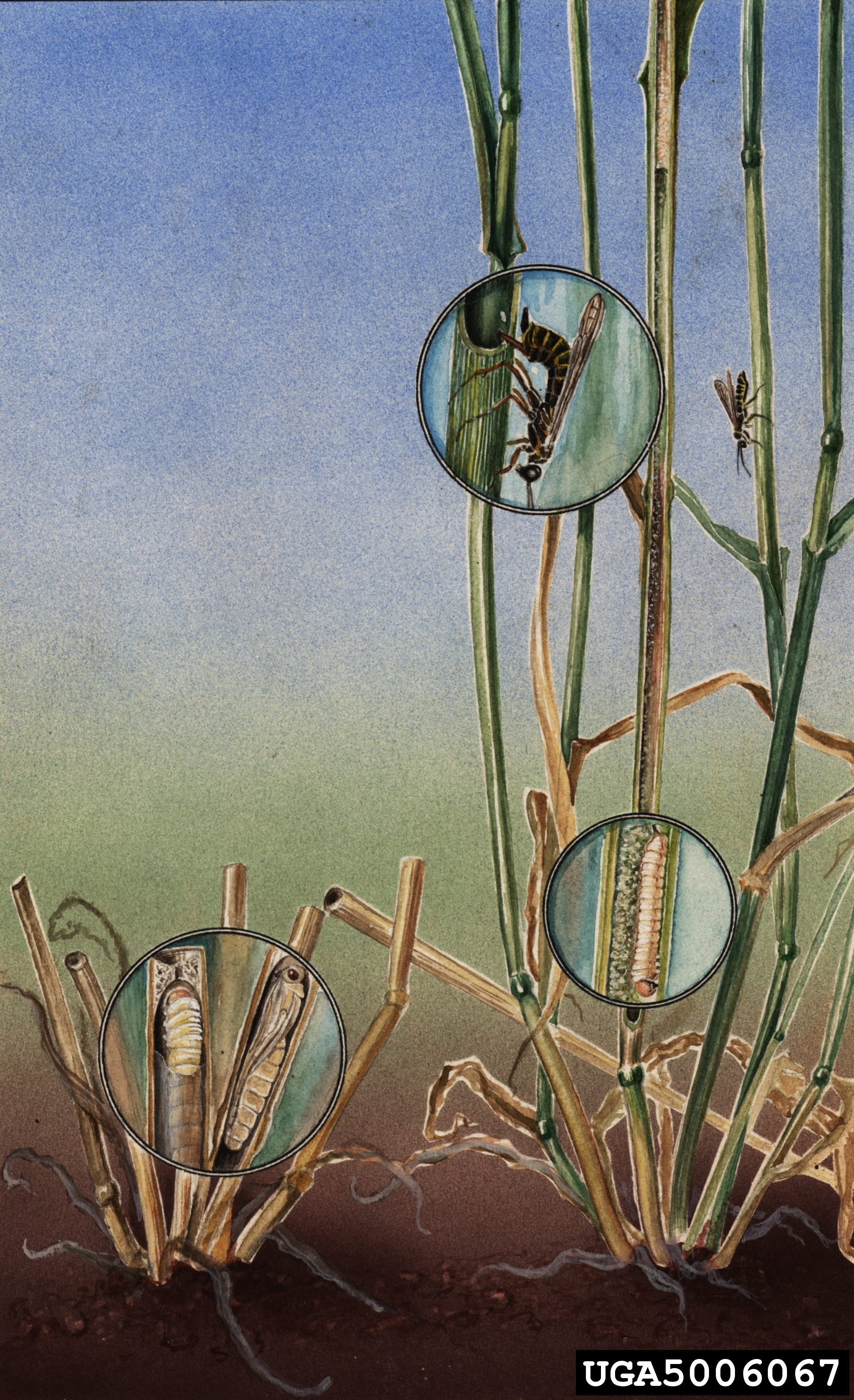 wheat stem sawfly (Cephus cinctus) Illustration of its life cycle